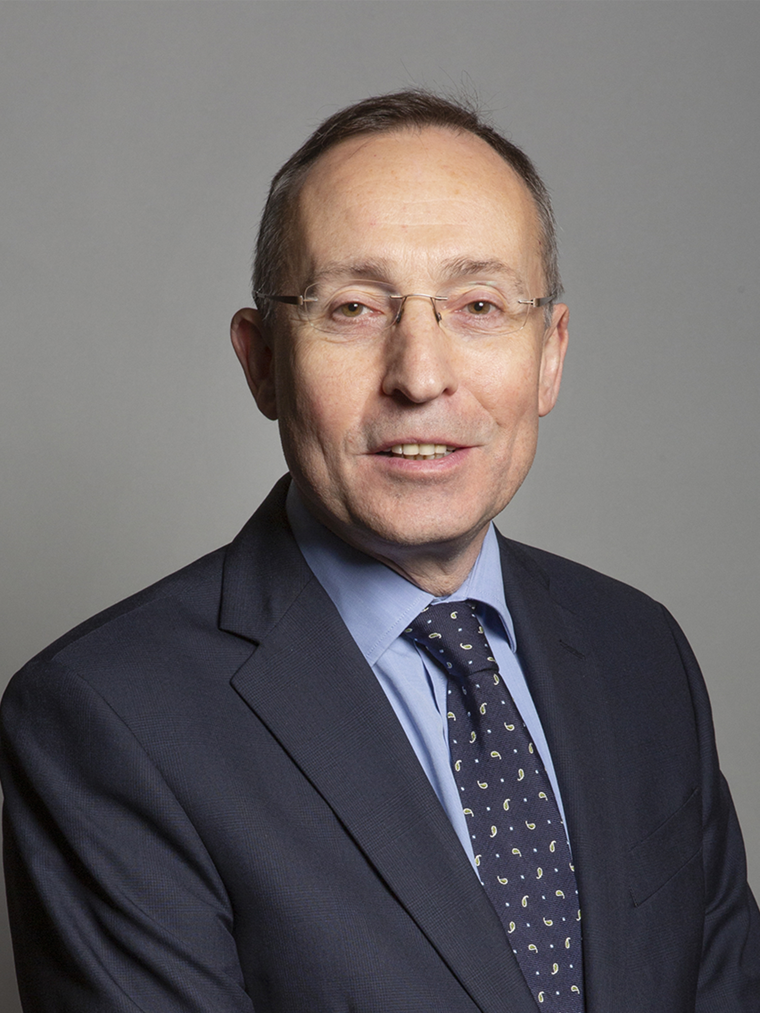 Official portrait of Andy Slaughter MP 3×4 portrait of Andy Slaughter